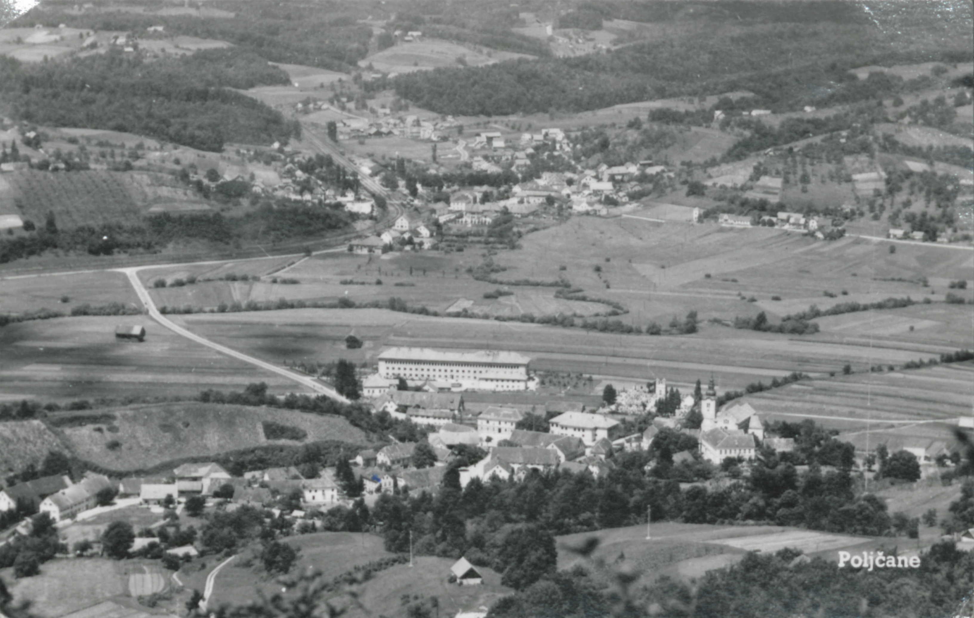 Postcard of Poljčane